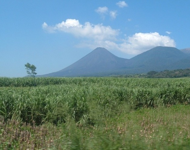 Izalco Volcano (center) and Cerro Verde (right) as seen from the road to Sonsonate in El Salvador.